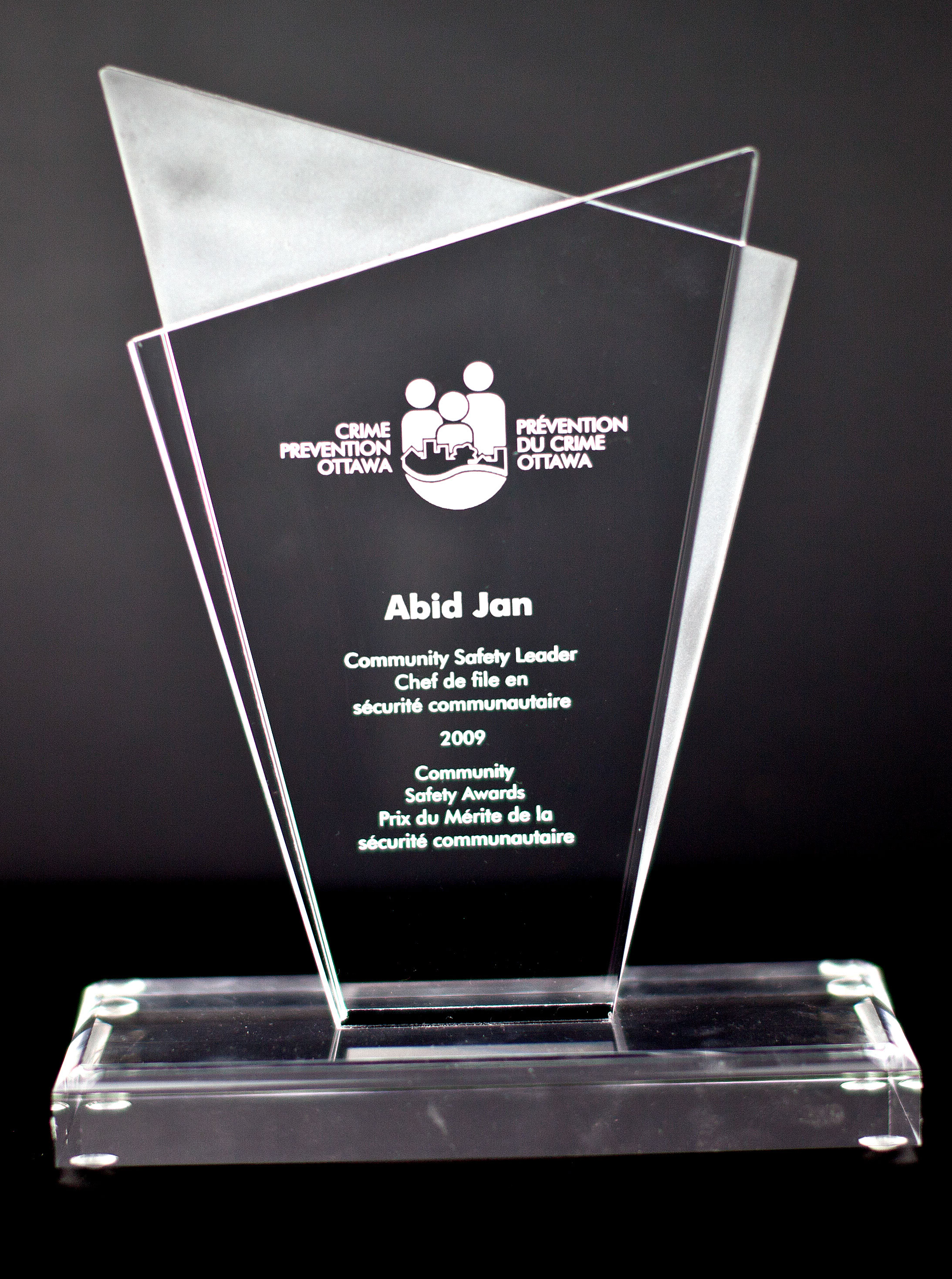 Abid Ullah Jan awarded with the first Community Safety Leader Award for his crime prevention work in vulnerable neighbourhoods in Ottawa